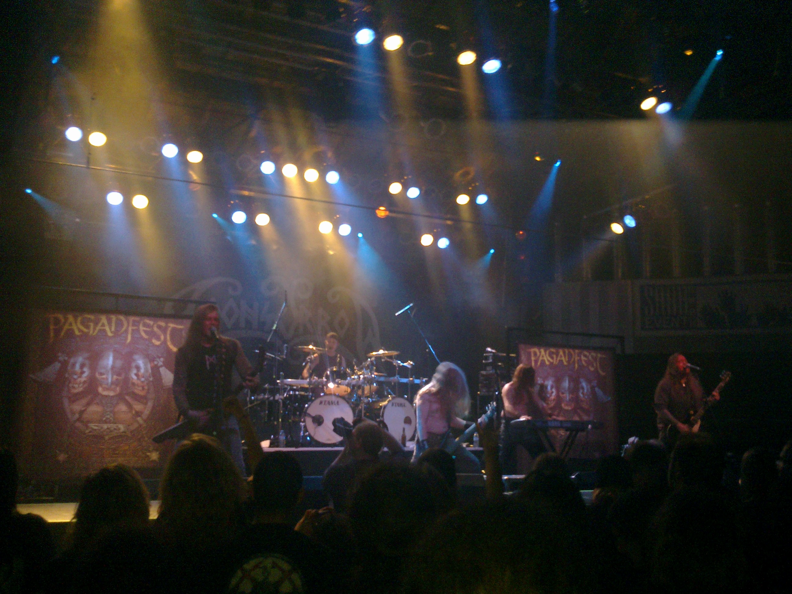 Picture of Moonsorrow, taken by myslef during their concert in Sarrebrück the 10/03/2001.